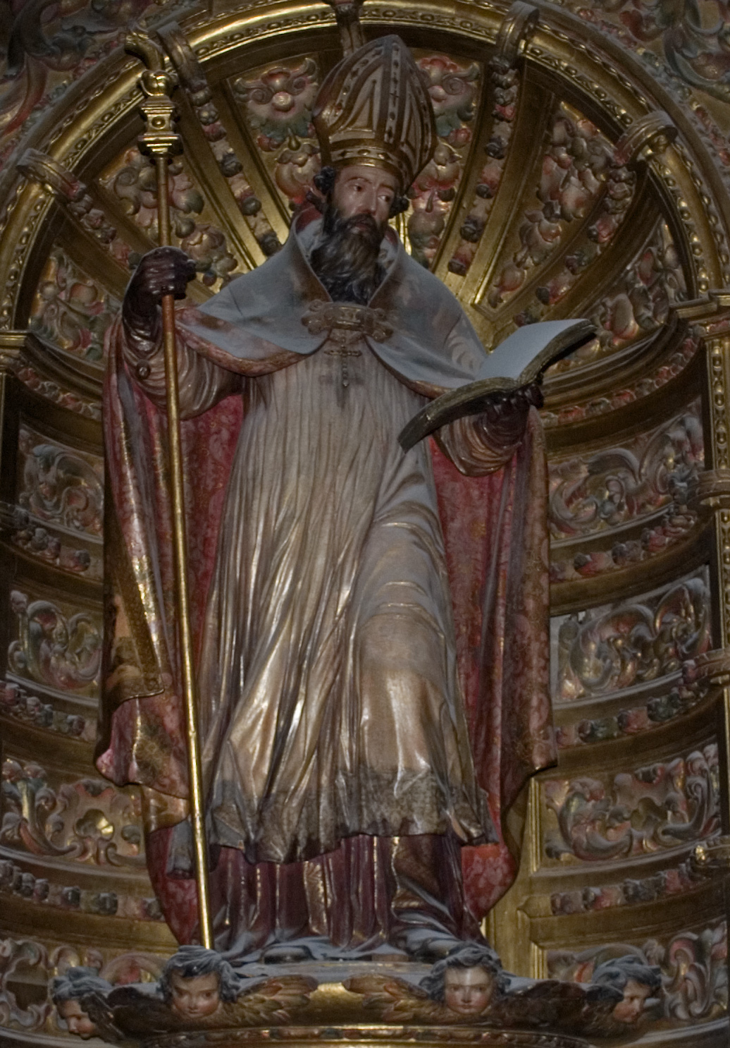 Cathedral of Seville